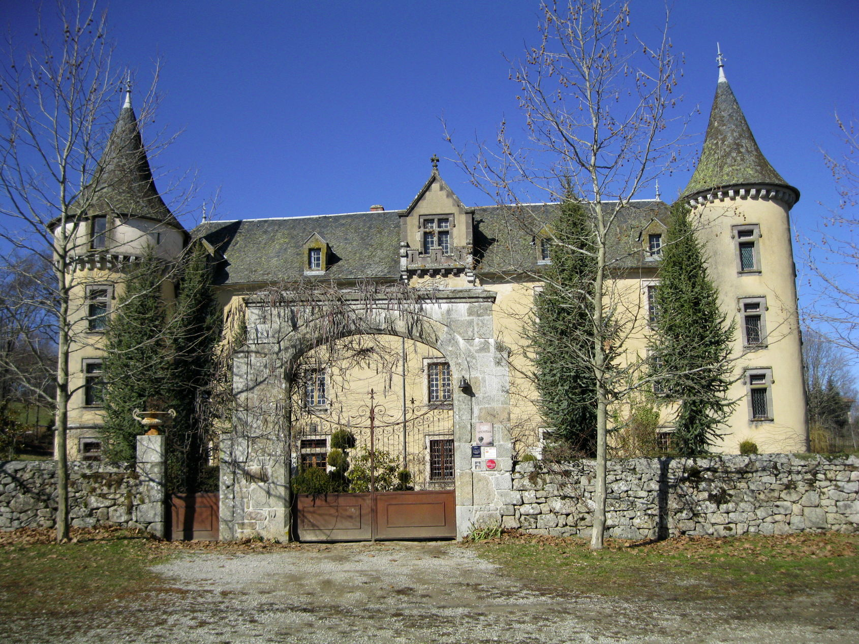 View from portals side of Bessonies castle, Bessonies in Lot department in France